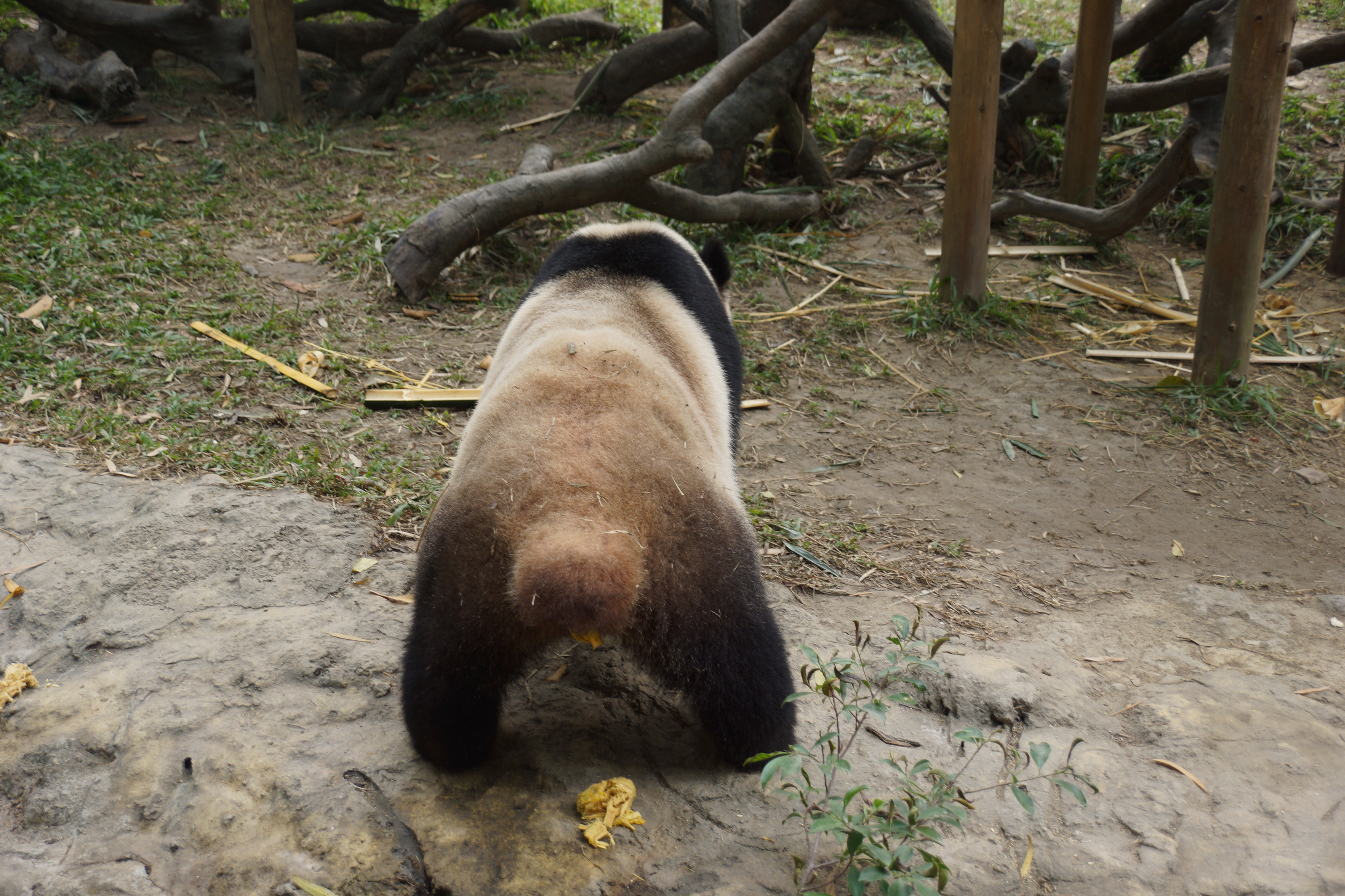 Ailuropoda melanoleuca defecating